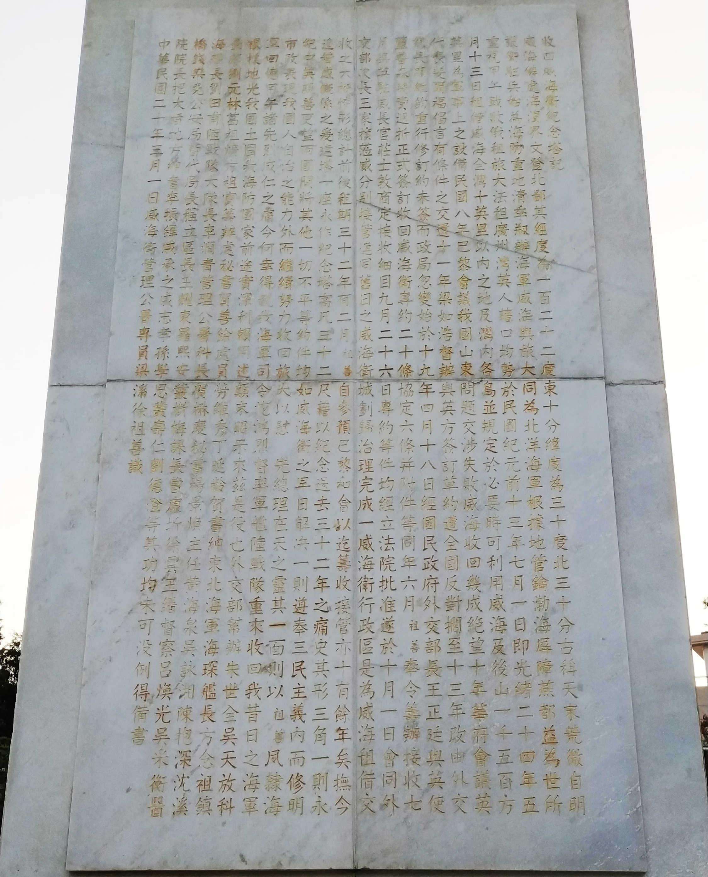 Inscription of Portrait of Tower for Return of Weihaiwei